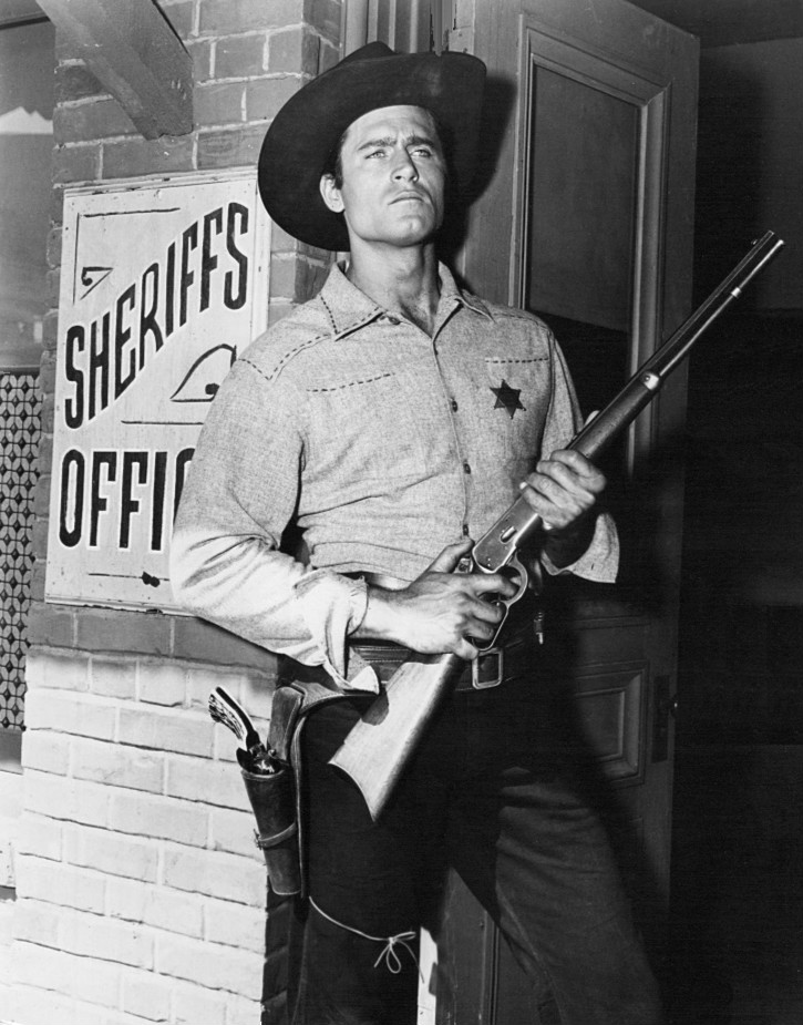 Photo of Clint Walker as Cheyenne from the television program of the same name.